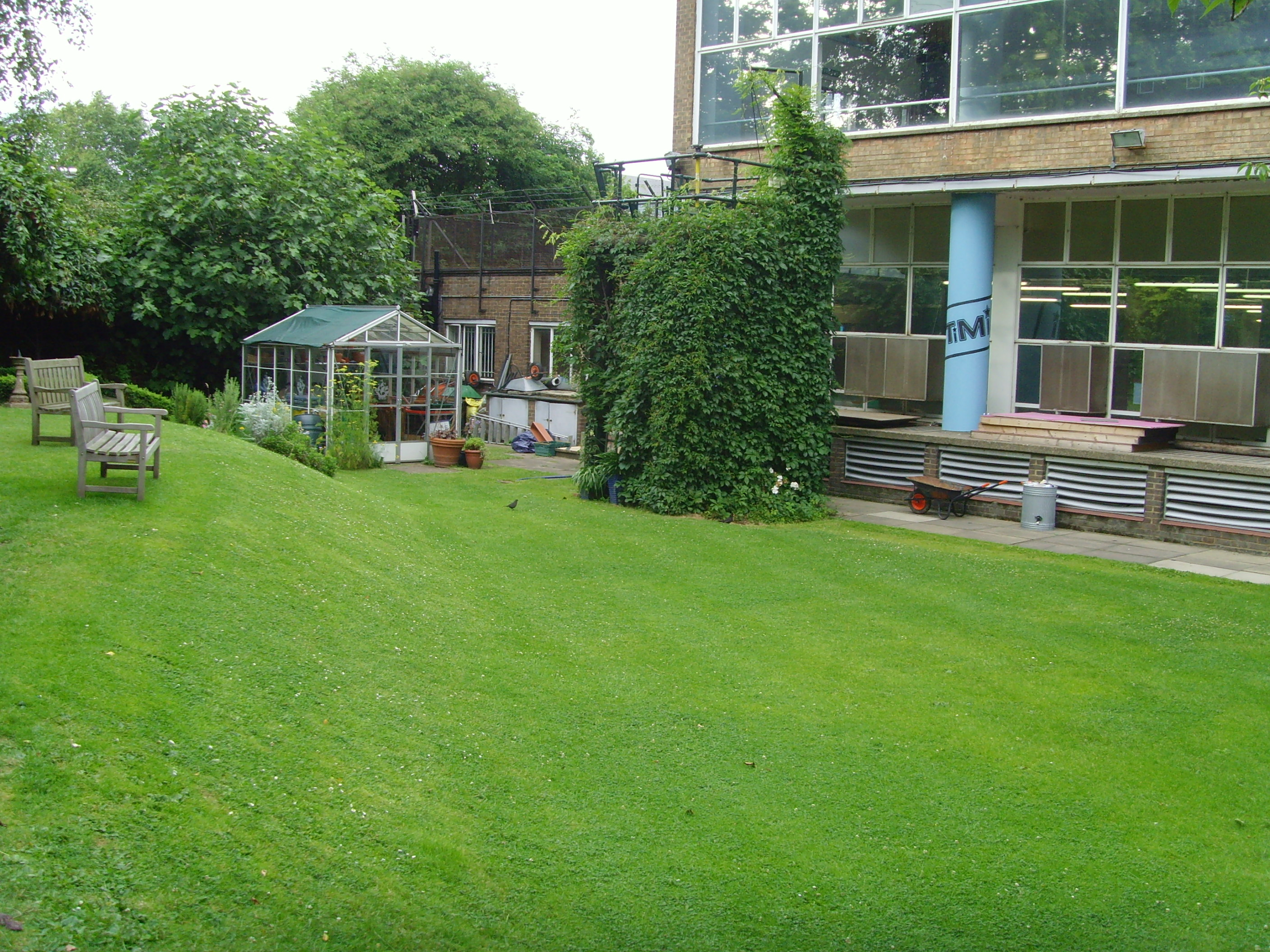 The Blue Peter garden.